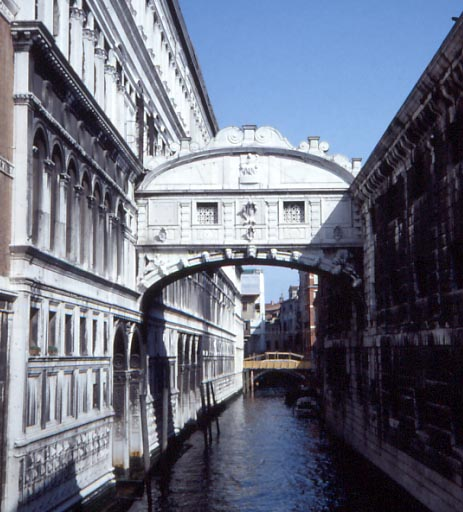 canal of Venice in Italy